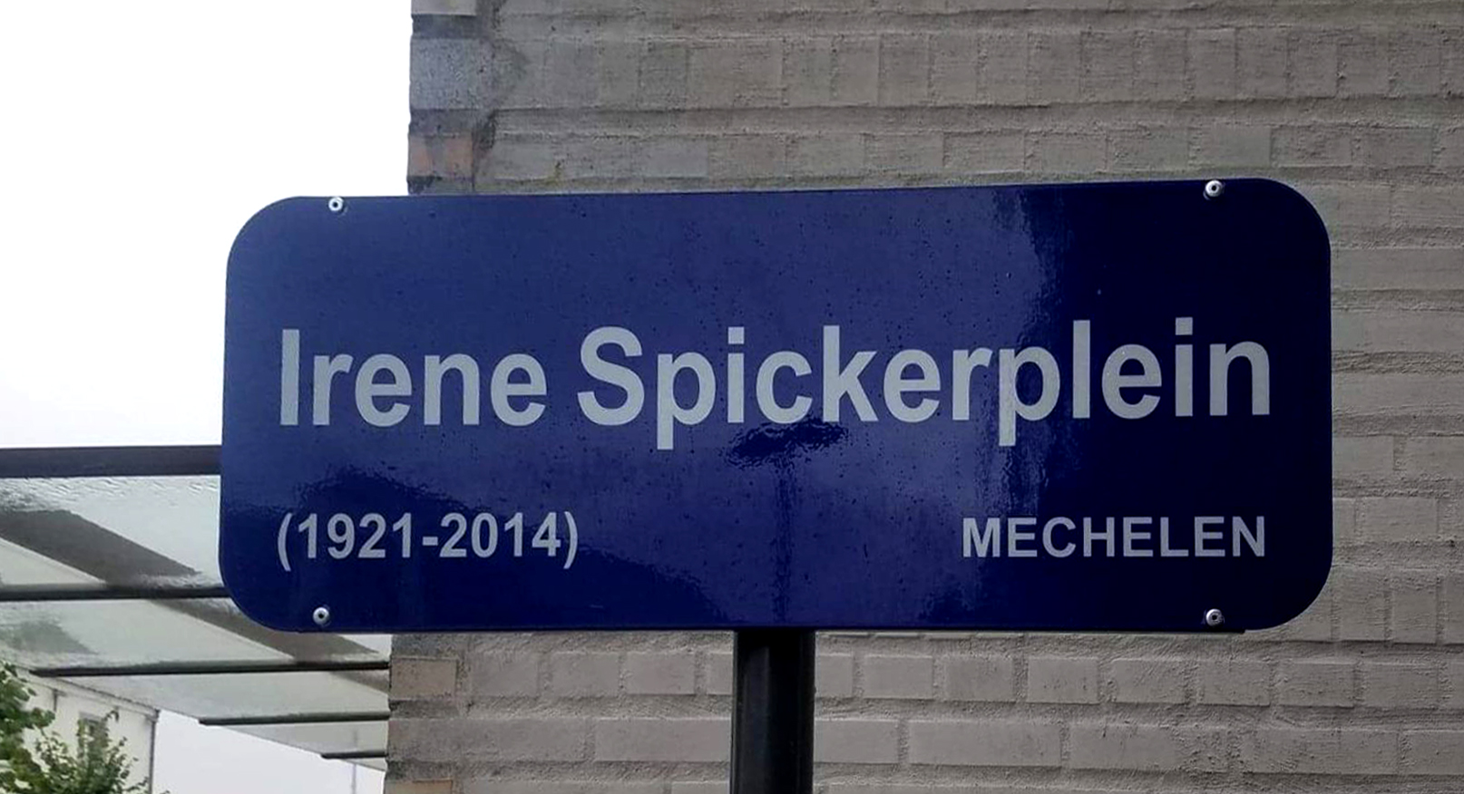 Street sign on a square in the area of a former deportation camp, Kazerne Dossin in Malines/Belgium